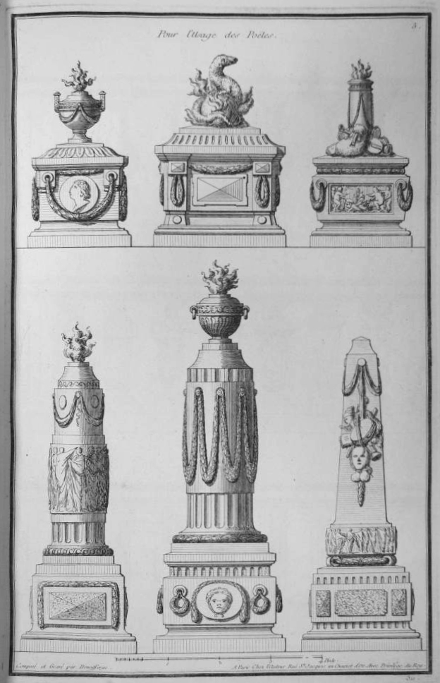 projects of ovens in the greek taste